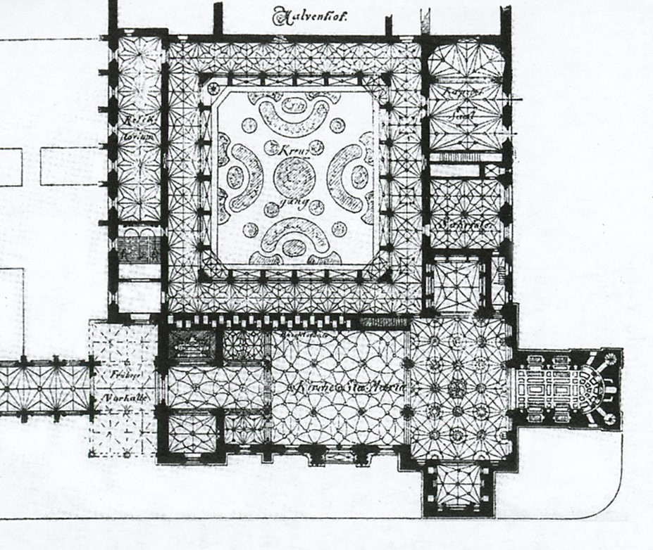 Karl Albrecht Haupt, Planta do Mosteiro dos Jerónimos, c. 1880